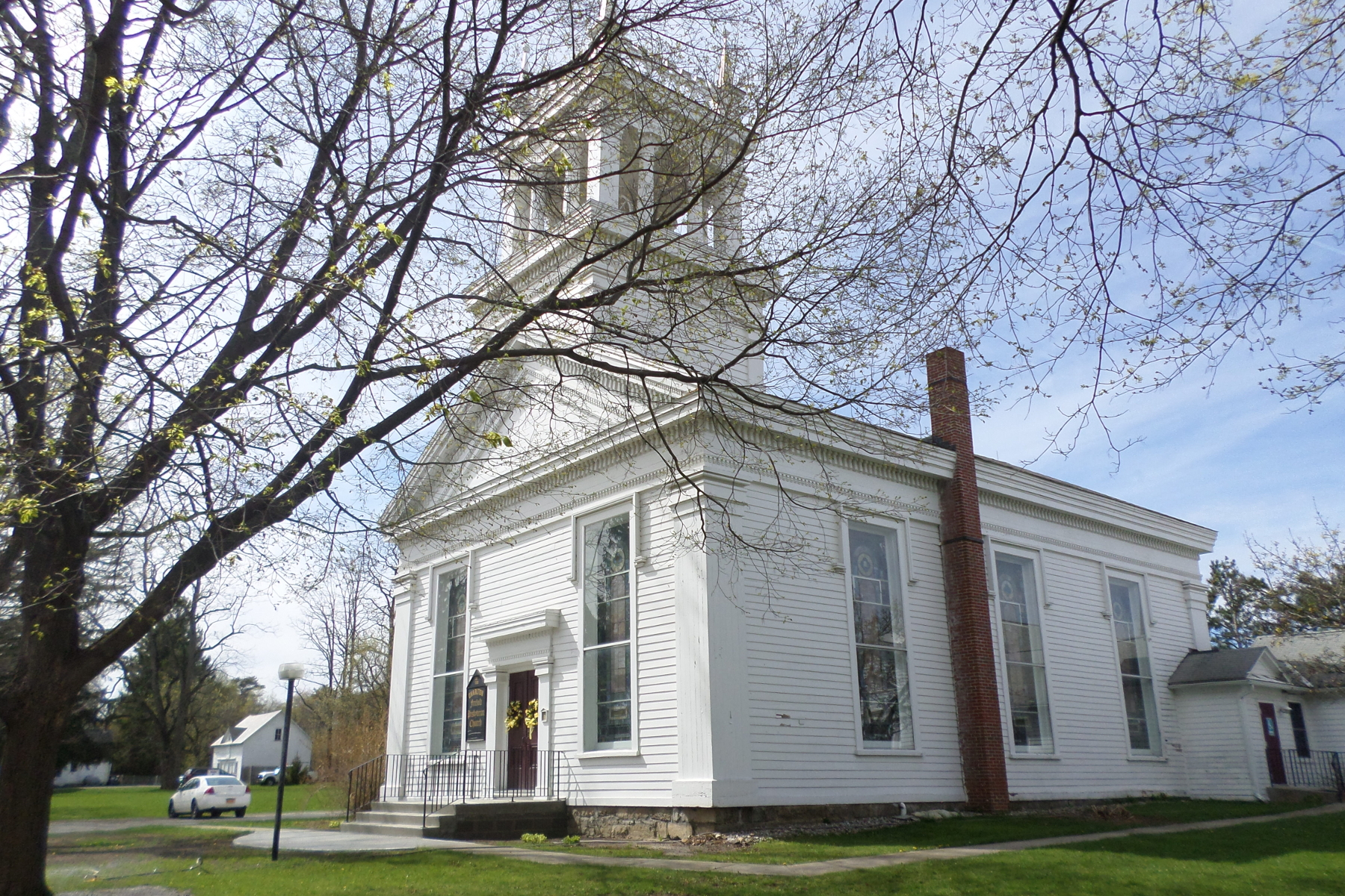 Freehold Presbyterian Church (1852), Charlton Historic District, Saratoga County New Uork